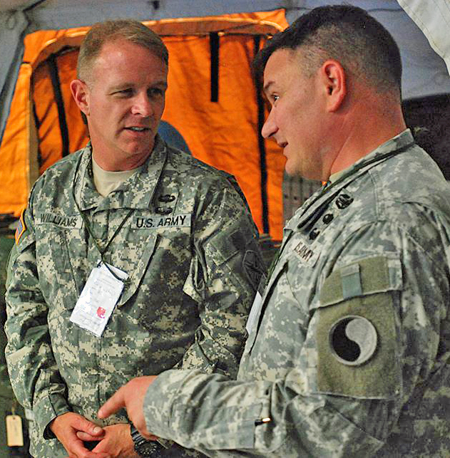 Brig. Gen. Timothy P. Williams, the Adjutant General of Virginia visits the 29th Infantry Division during their annual training June 13, 2014, at Fort A.P. Hill, Va. As part of its annual training at Fort A.P. Hill, the 29th ID conducted a command post exercise designed to test the division’s capabilities for future combat roles. The exercise brought together Soldiers from throughout the division, as well as Soldiers from stakeholder units in Maryland, North Carolina and Puerto Rico. — at Fort A.P. Hill.